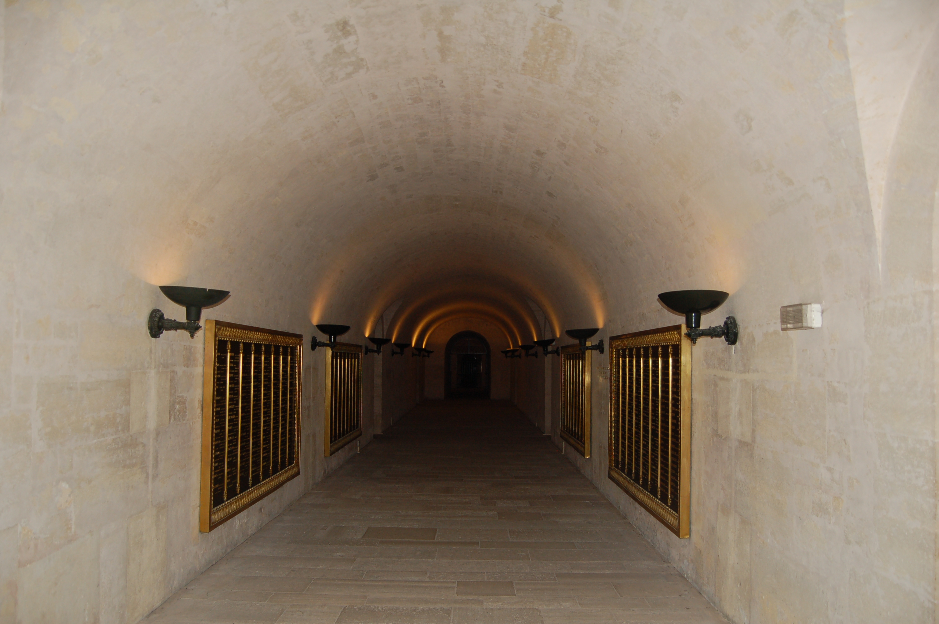 The Panthéon crypt in Paris, France. Photo taken by Rob Gamble